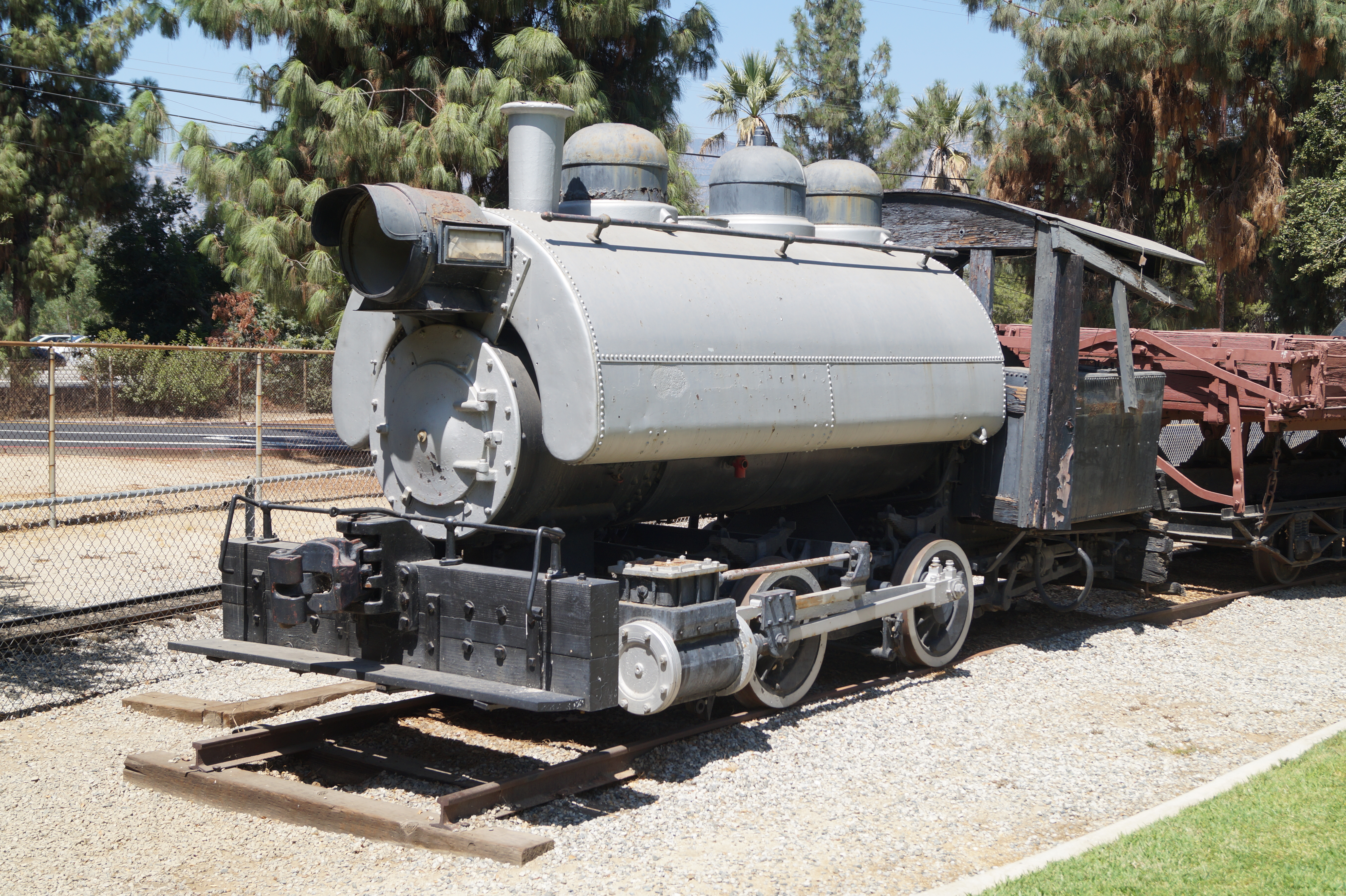 Travel Town Museum is a transport museum dedicated in the northwest corner of Los Angeles, California's Griffith Park. The history of railroad transportation in the western United States from 1880 to the 1930s is the primary focus of the museum's collection, with an emphasis on railroading in Southern California and the Los Angeles area.